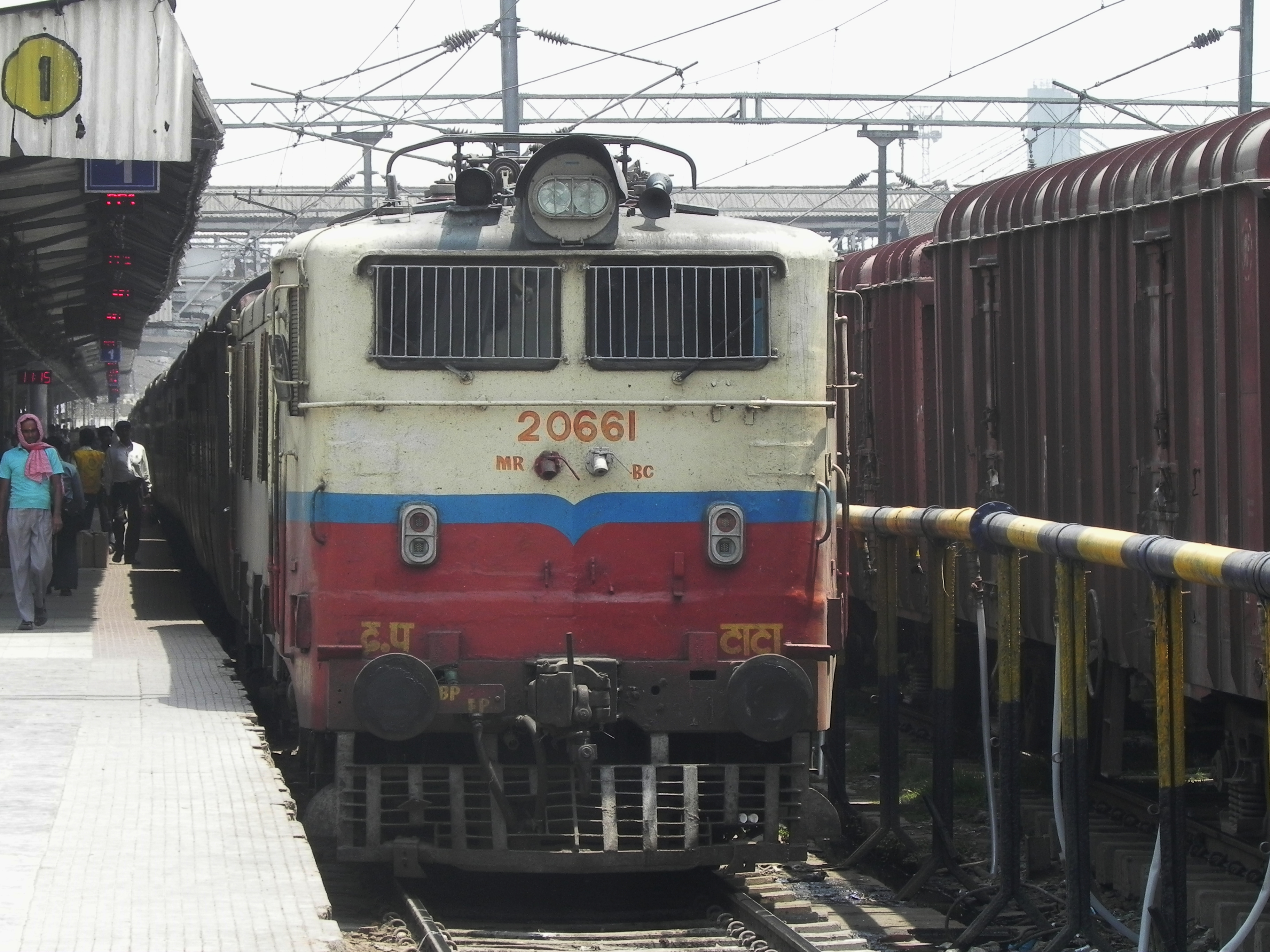 12295 (SBC-PNBE) Sanghamitra Express with TATA based WAM-4 loco - 20661 at Patna